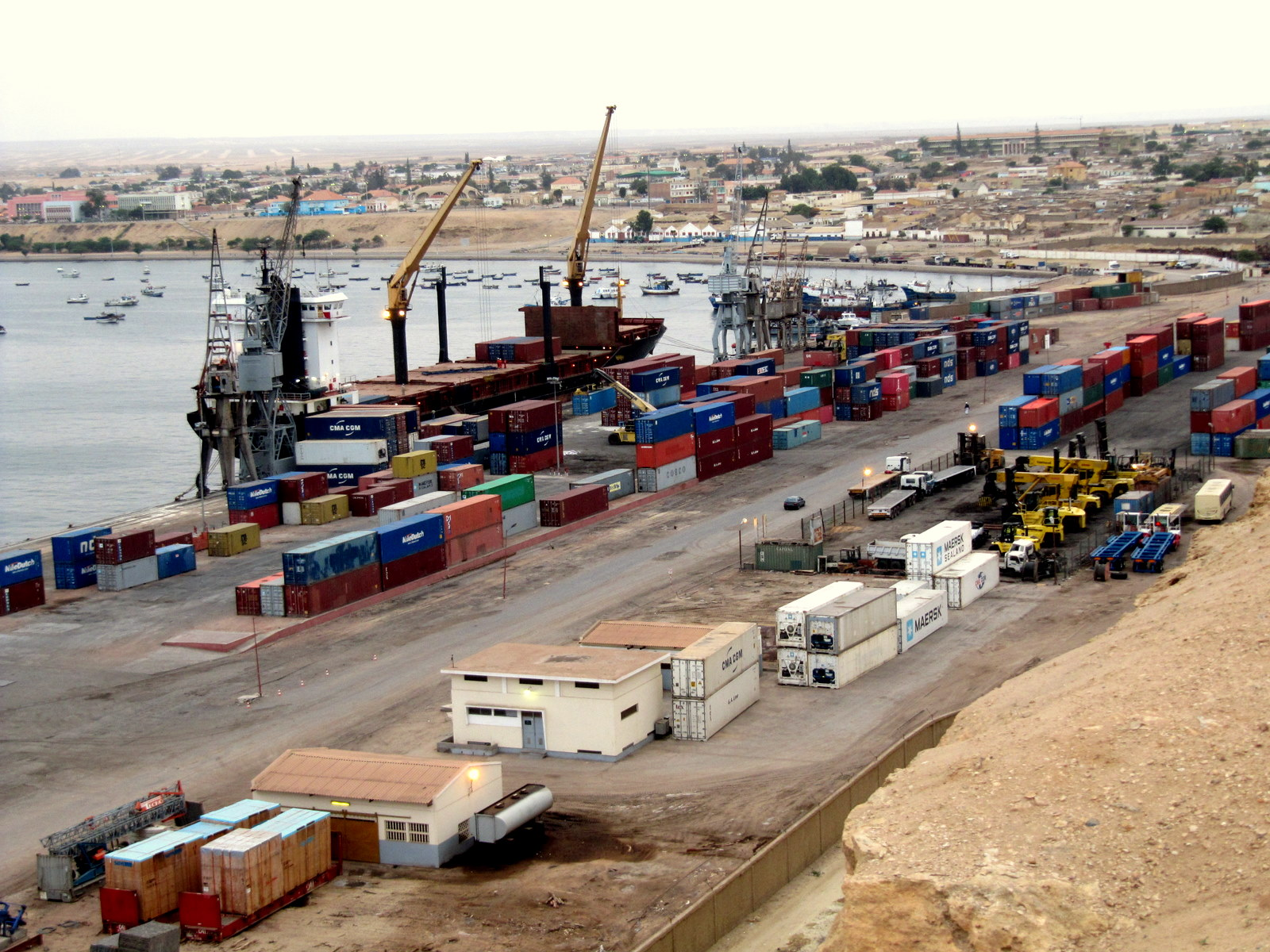 Commercial port of Namibe, Angola